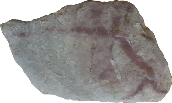 Photographer: Siim Sepp Date of the creation: 19th April, 2005. This rock is a property of museum of geology of University of Tartu.